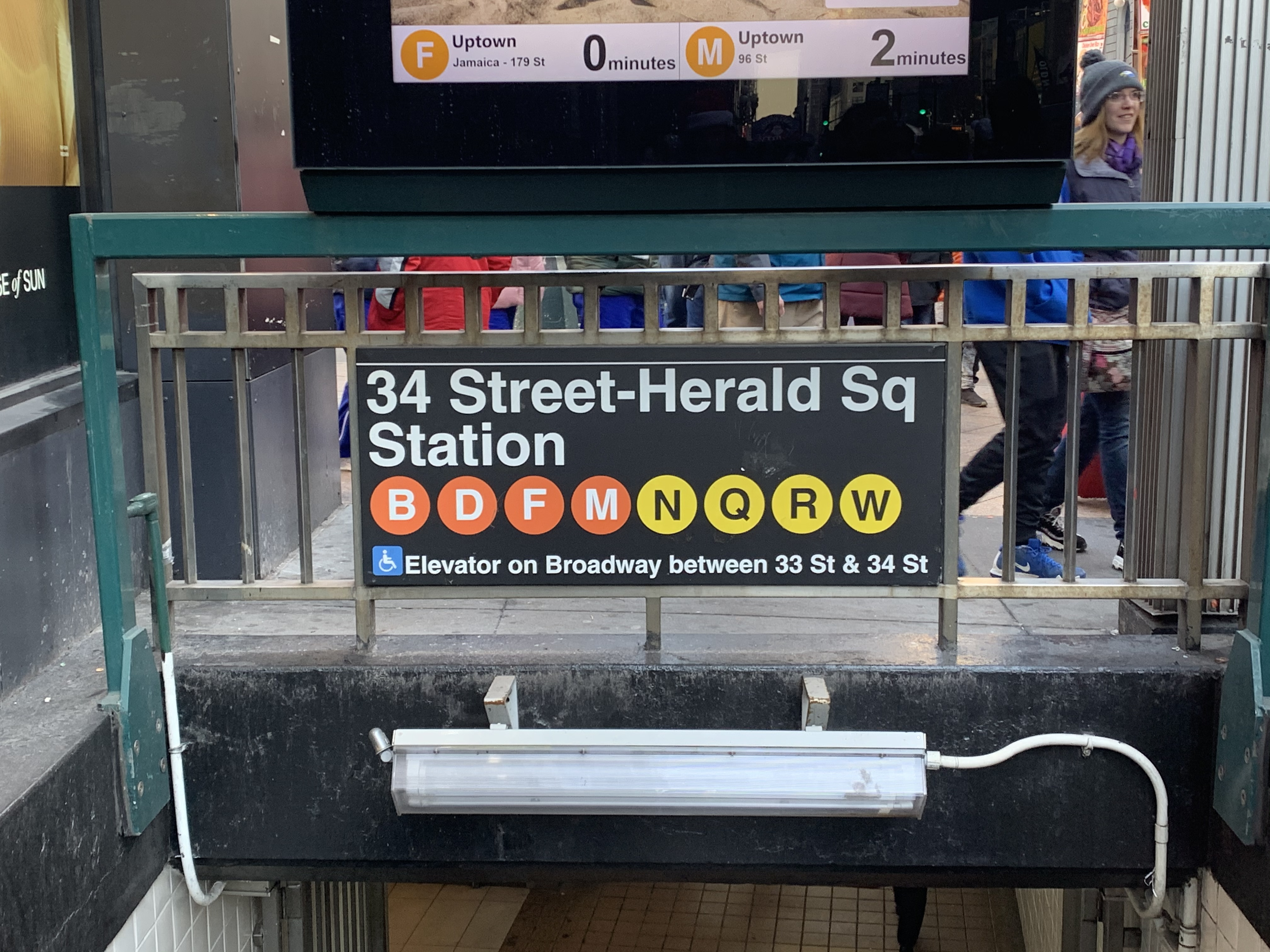 Enterance of the 34th Street-Herald Square for the (B), (D), (F), (M), (N), (Q), (R) and (W) trains